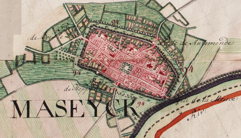 Maaseik as depicted on the 18th century Ferraris maps